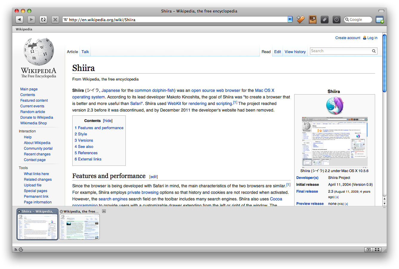 Screenshot of Shiira v2.3 on Mac OS X v10.5.8.